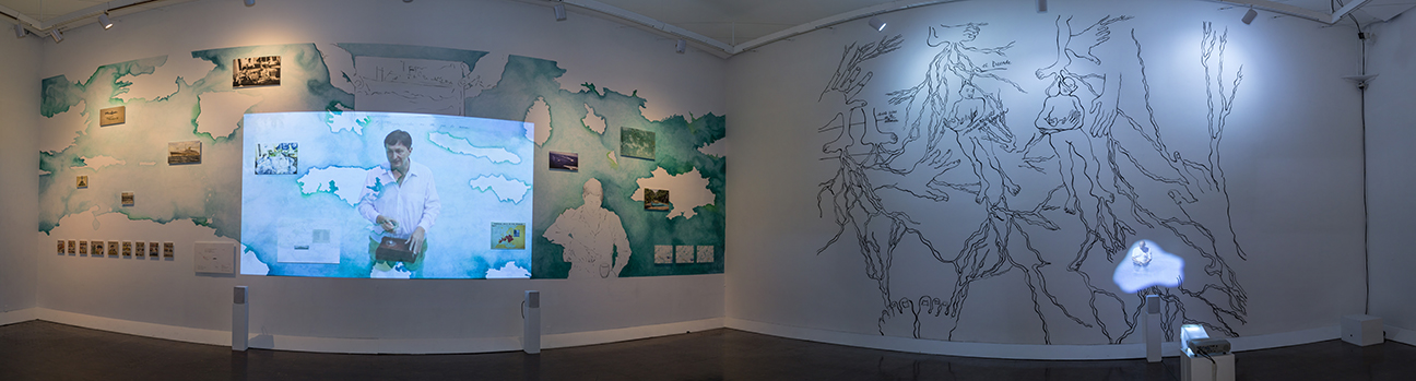 The Swimming pool series, Installation at the Laboratorio de Arte Alameda.